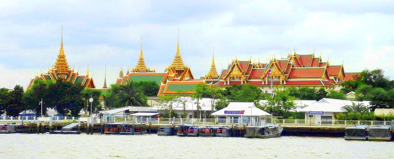 Grand Palace, Bangkok, Thailand as seen from the Chao Phraya river